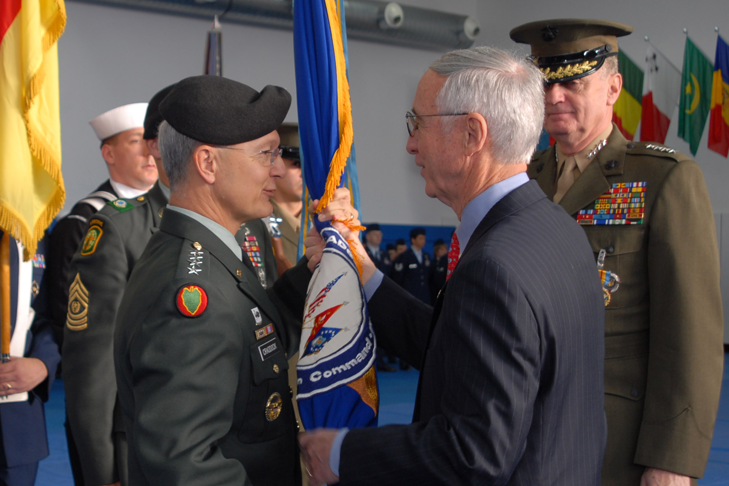 General Bantz J. Craddock, US Army accepts command of U.S. European Command from Deputy Secretary of Defense Gordon England during a ceremony on Patch Barracks here, Dec. 4, 2006. Craddock, who replaces Marine Gen. James L. Jones (right), will also assume responsibilities as Supreme Allied Commander, Europe, from Jones in a ceremony Dec. 7 in Mons, Belgium.